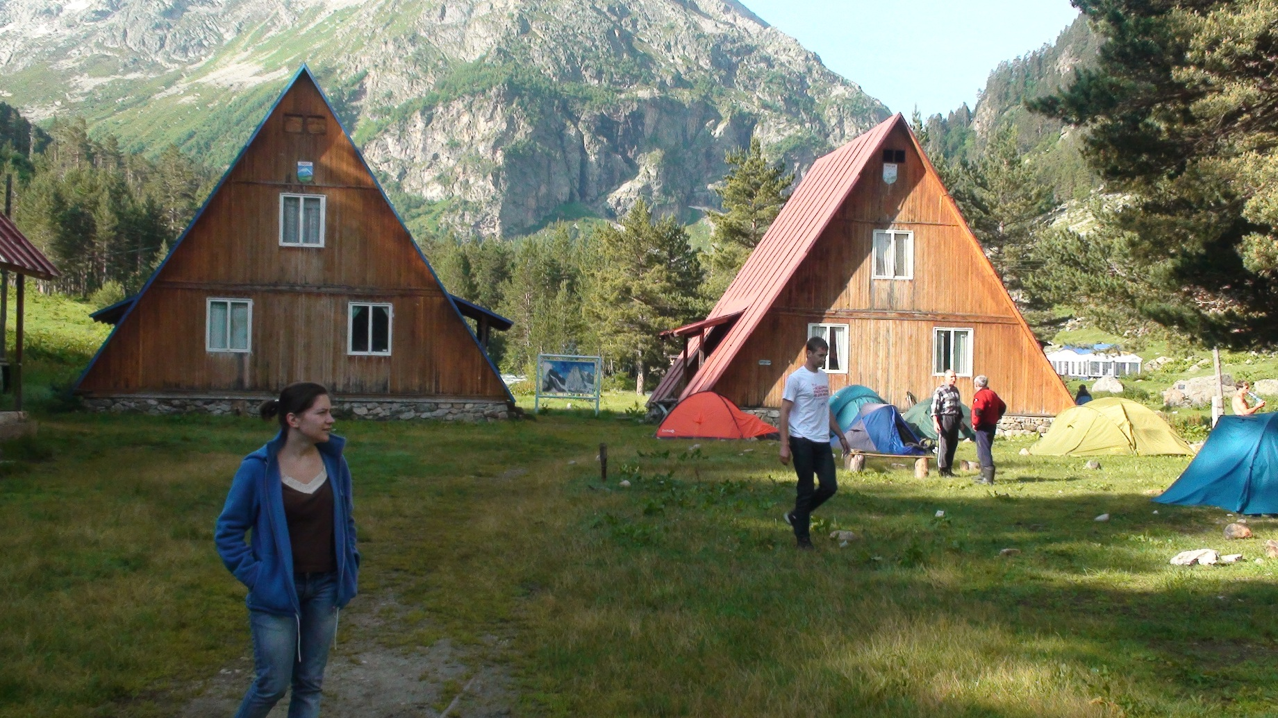 Uzunkol camp